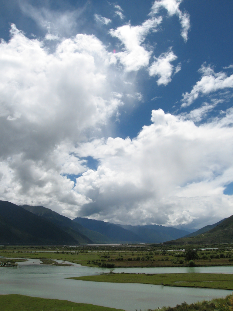 South of Chamdo (Qamdo) town, Chamdo County, Tibet